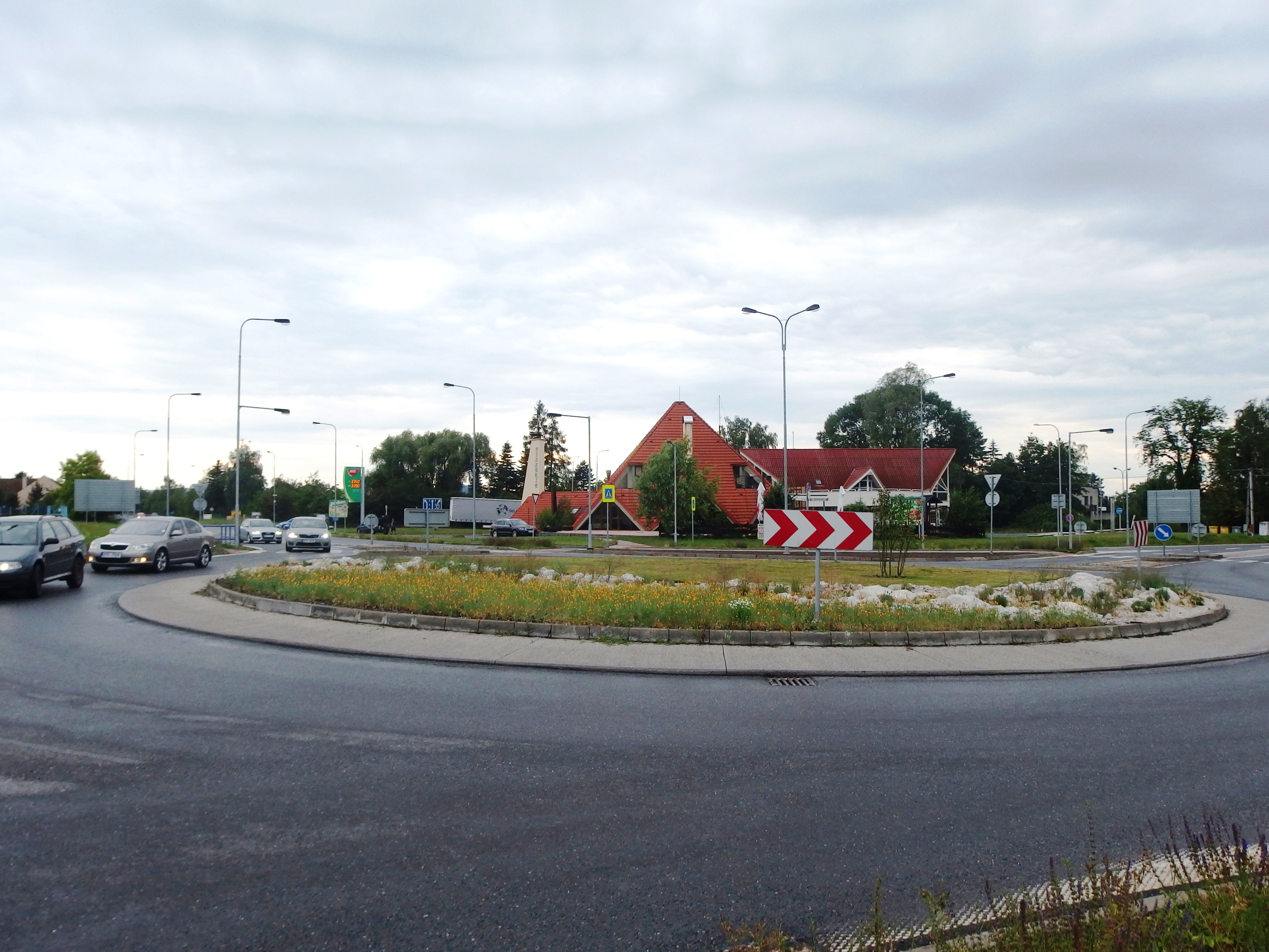 Kopřivnice, Nový Jičín District, Czech Republic, part Lubina.